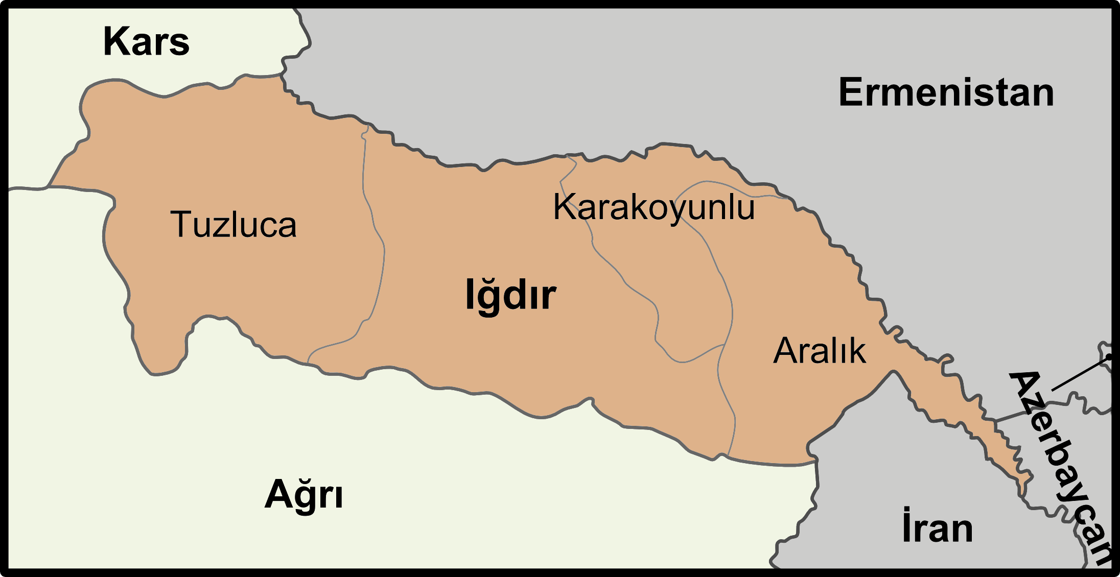 Map of the districts of Iğdır Province, Turkey.